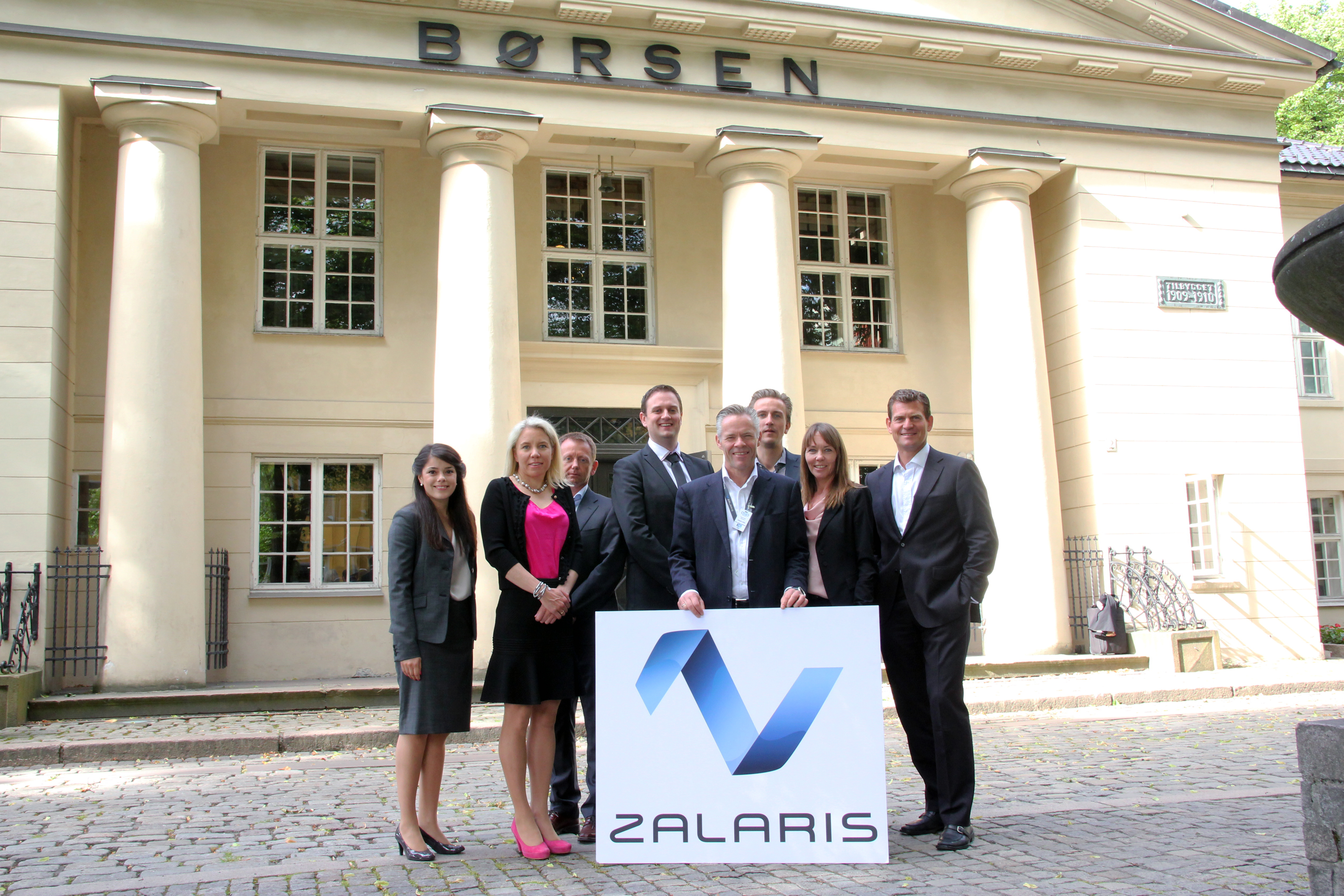 Workers of Zalaris ASA